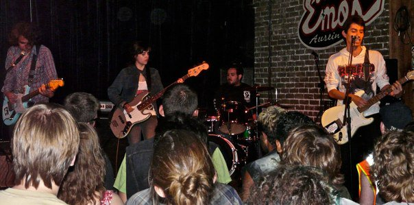 Ratas del vaticano playing at emo's in Austin